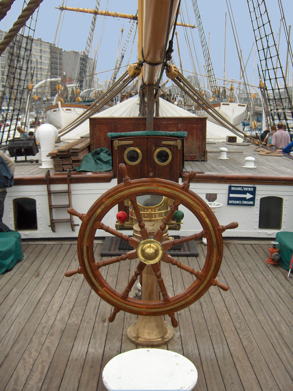 helm Own work - photo taken by Georges Jansoone on 11 September 2005